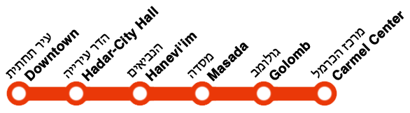 Map of the Carmelit system in Haifa, with the new names of some stations after the October 2018 reopening.